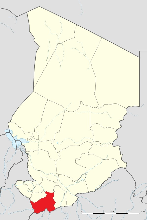 Map of Logone Oriental region Chad